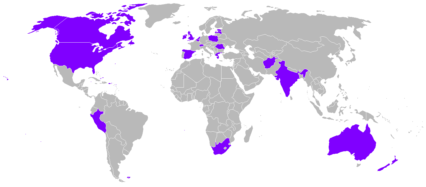 World map of De Havilland (Airco) DH.9 operators